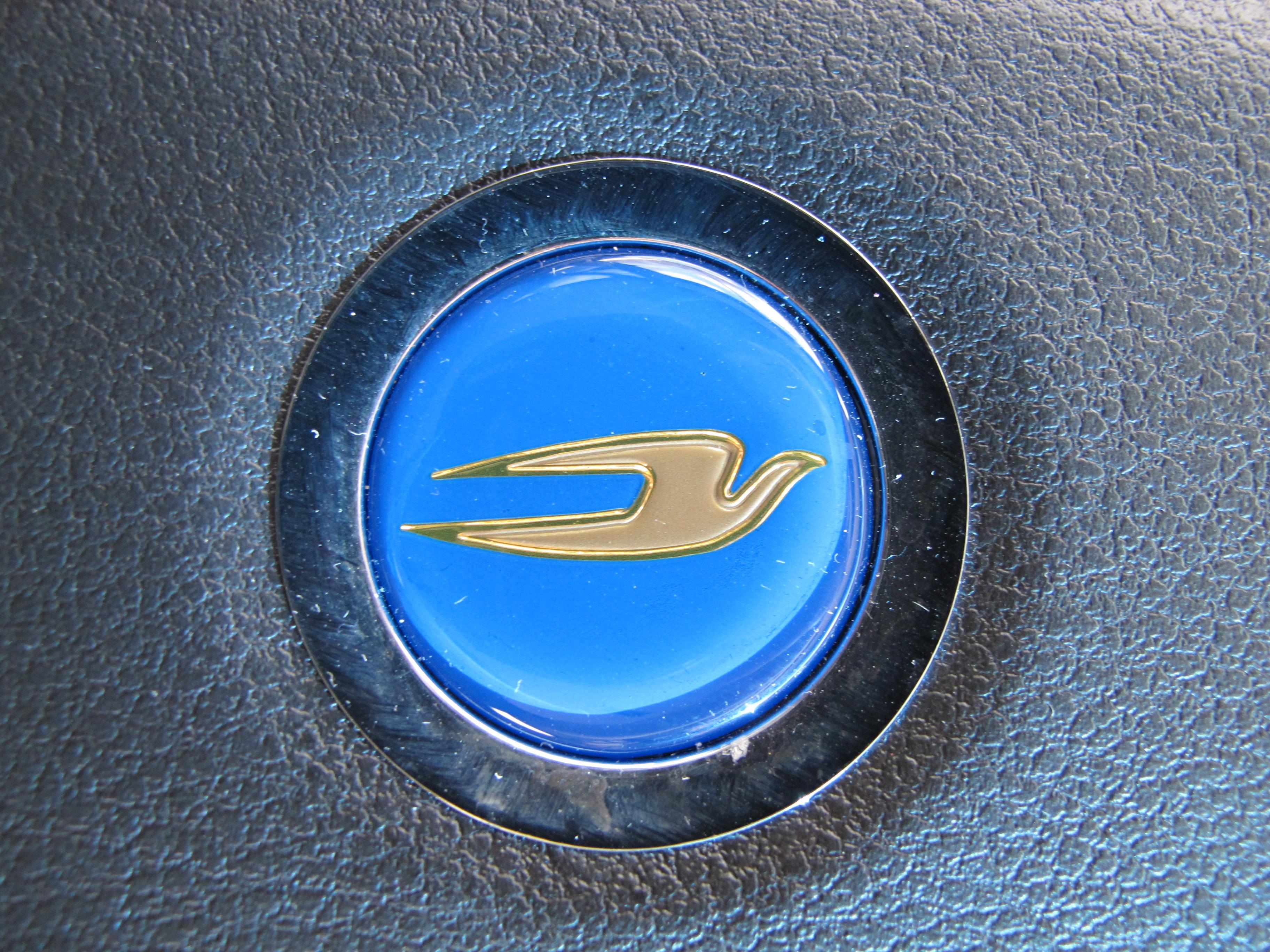 bluebird corp. logo